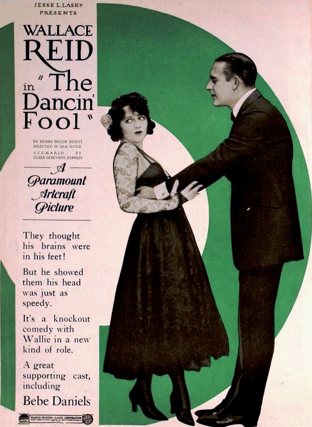 Ad for the American film The Dancin' Fool (1920) with Wallace Reid and Bebe Daniels, on page 3574 of the April 24, 1920 Motion Picture News.